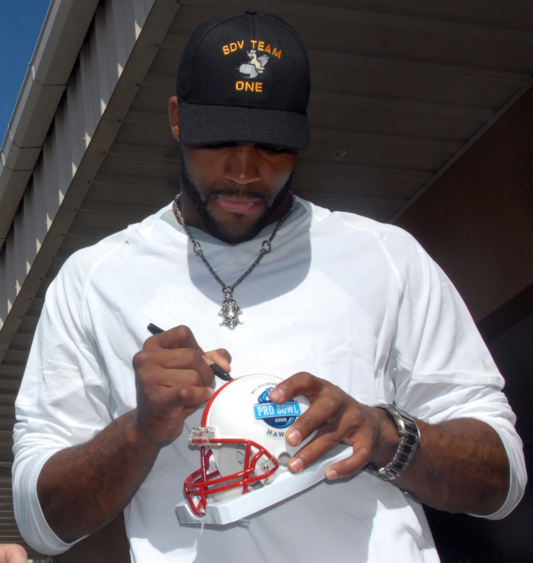 A U.S. Navy Sailor assigned to SEAL Delivery Vehicle Team One receives an autograph from Braylon Edwards, wide receiver for the National Football League’s Cleveland Browns and 2008 American Football Conference Pro Bowl team, during a visit to SDVT-1 on the Pearl City Peninsula in Pearl Harbor, Hawaii, Feb. 6, 2008. The visit provided an opportunity for Edwards and his four family members to experience the job of U.S. Navy special warfare operators and Sailors assigned to SDVT-1. (U.S. Navy photo by Mass Communication Specialist 2nd Class Michael A. Lantron) (Released)